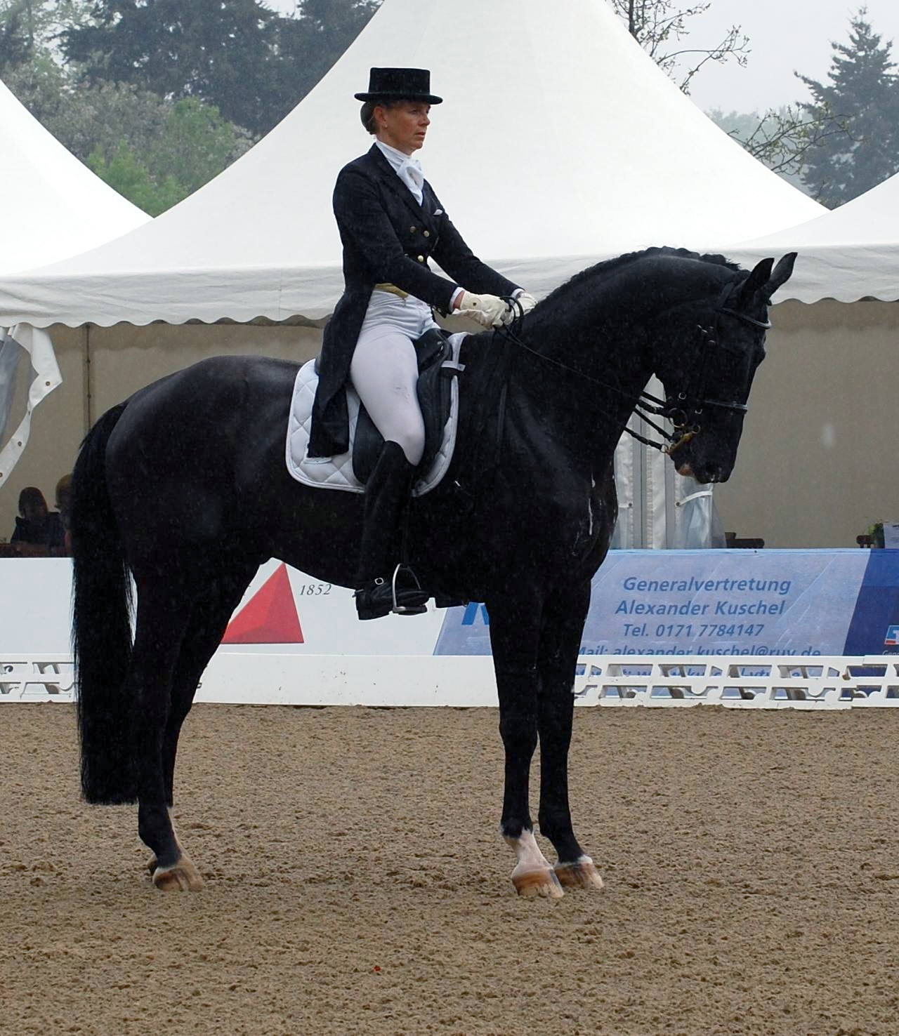 Pia Laus-Schneider with Worcester, Grand Prix de Dressage at the CDI 4* German Dressage Derby 2013